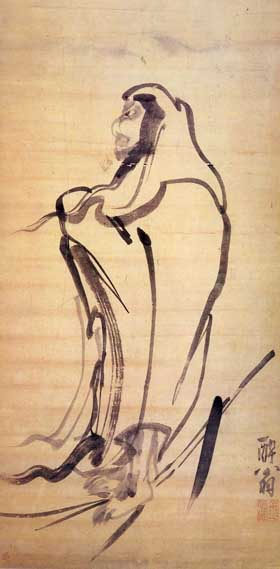 “Bodhidharma crossing a river with a broken branch.” painted by Kim Myeong-guk in the Joseon Dynasty